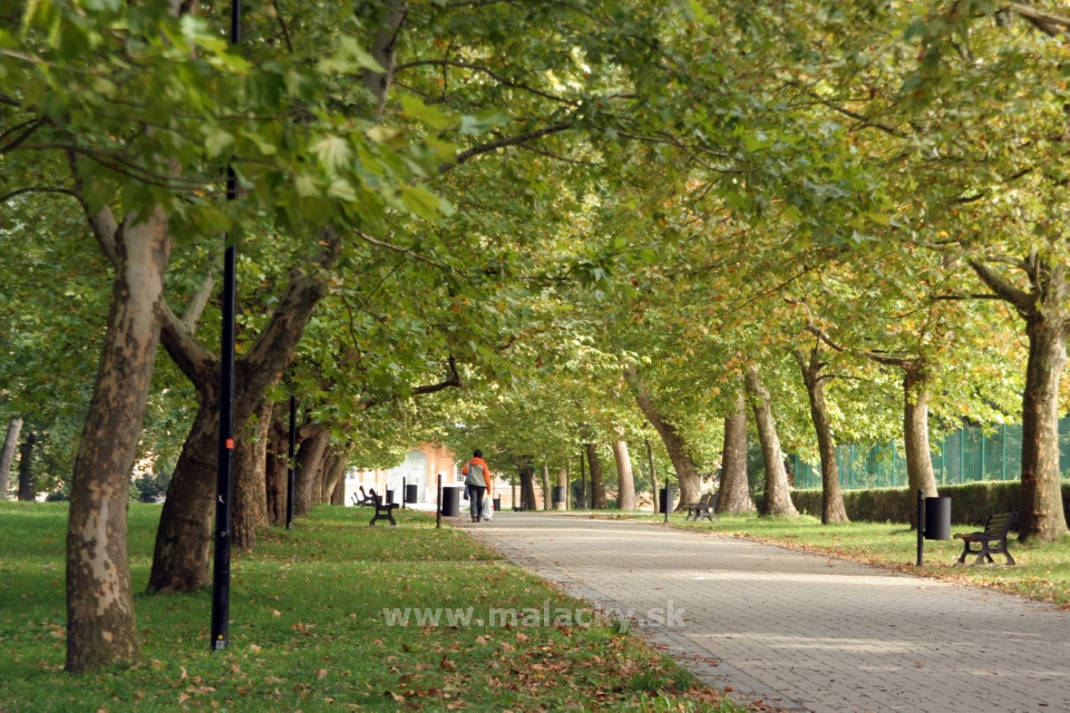 Manor in Malacky - Park